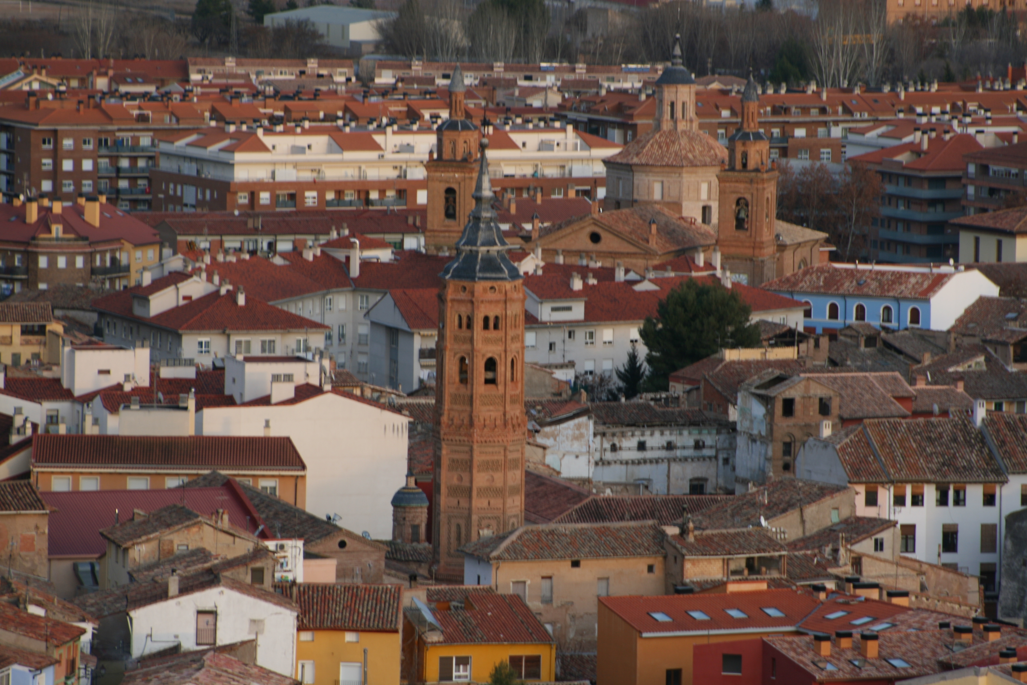 Church of San Andrés, Calatayud, Spain